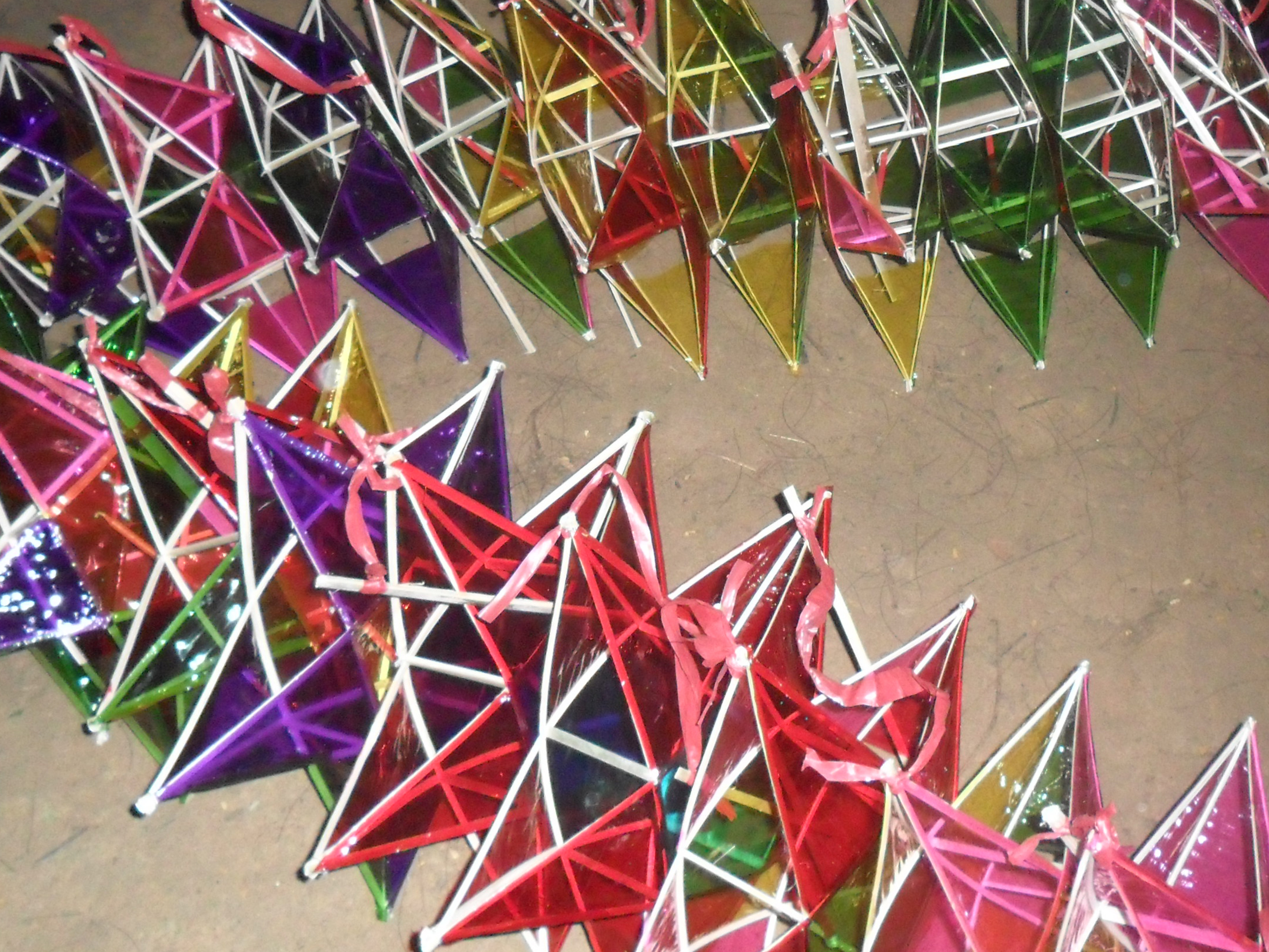 Star-shaped lanterns free making for children at mid-autumn festival in Kon Tum Province, Viet Nam.